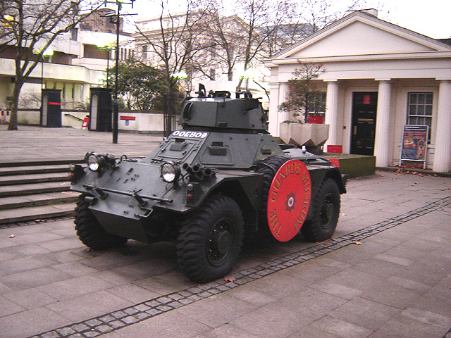 Armoured car at entrance to the Guards Museum, Birdcage Walk, Westminster, London. 14 January 2006. Photographer: Fin Fahey.